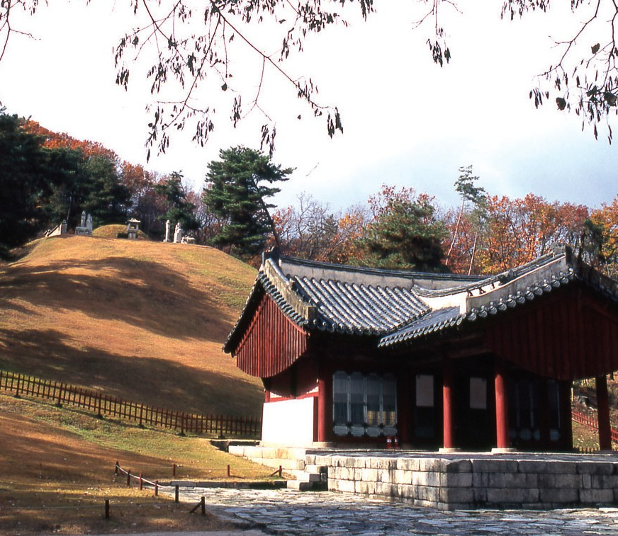 Picture of Jeongneung